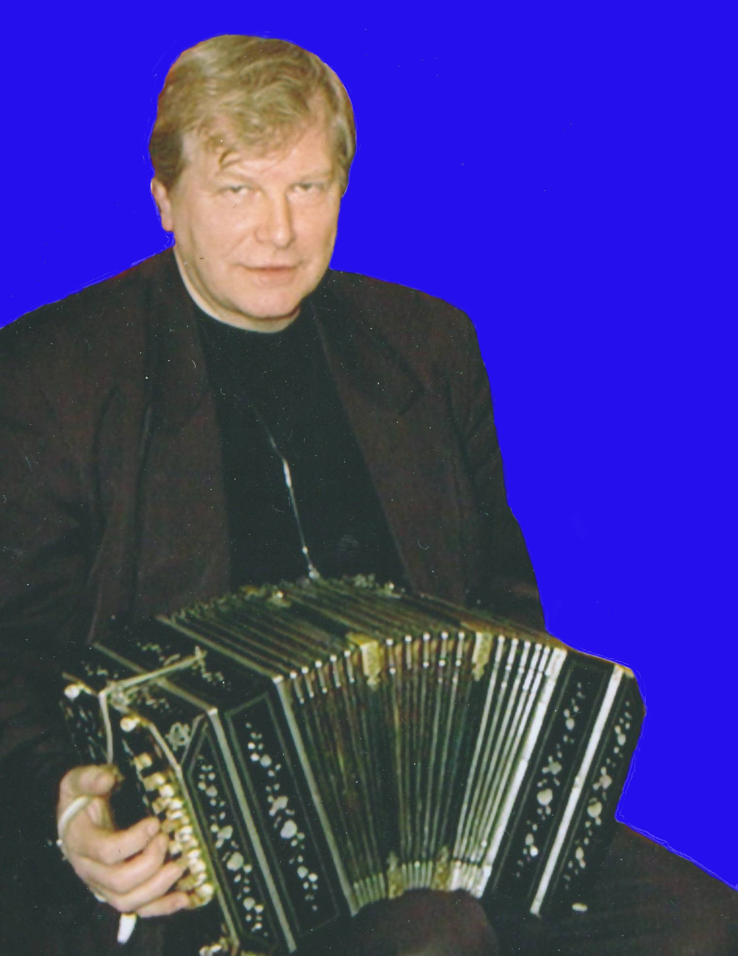 Portrait of Kåre Simonsen. Permision is «sent to OTRS»